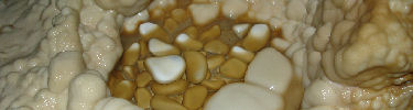 Cave pearls in Jewel Cave National Monument, South Dakota, USA